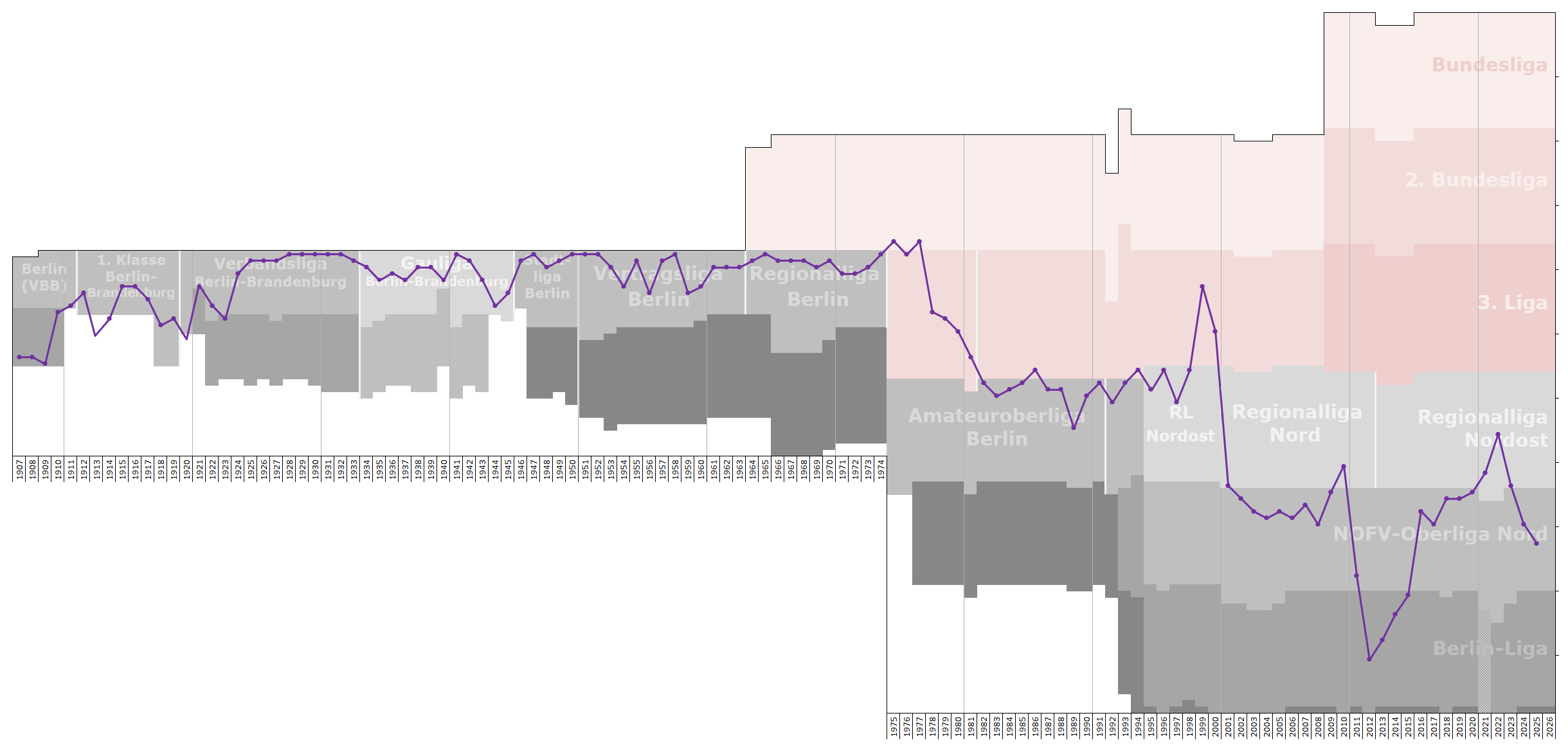 Chart of end-season table positions of Tennis Borussia in the football league system of Germany. Data source: RSSSF, wikipedia, f-archiv.de, fussball.de